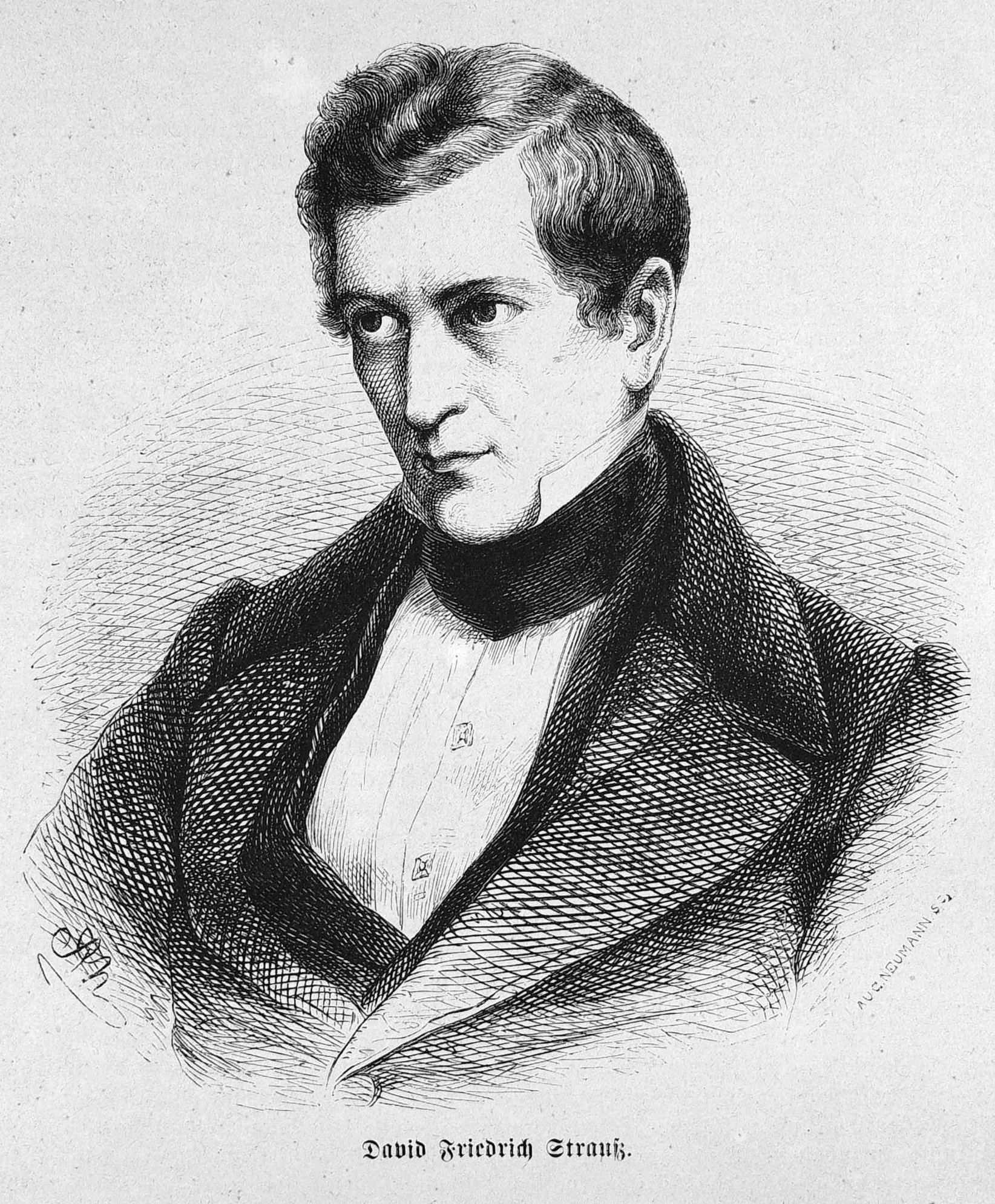 Page 143 from journal Die Gartenlaube for 1874. Extracted image (if any): File:Die Gartenlaube (1874) b 143.jpg - hi res, ~2.5 MB.